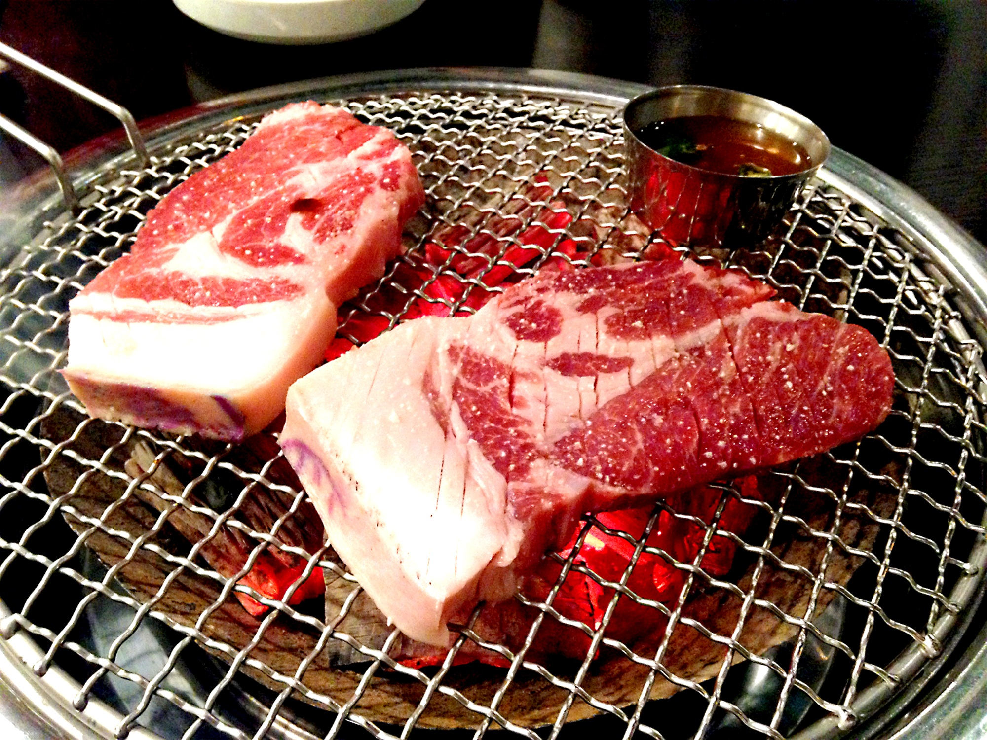 korean pork bbq